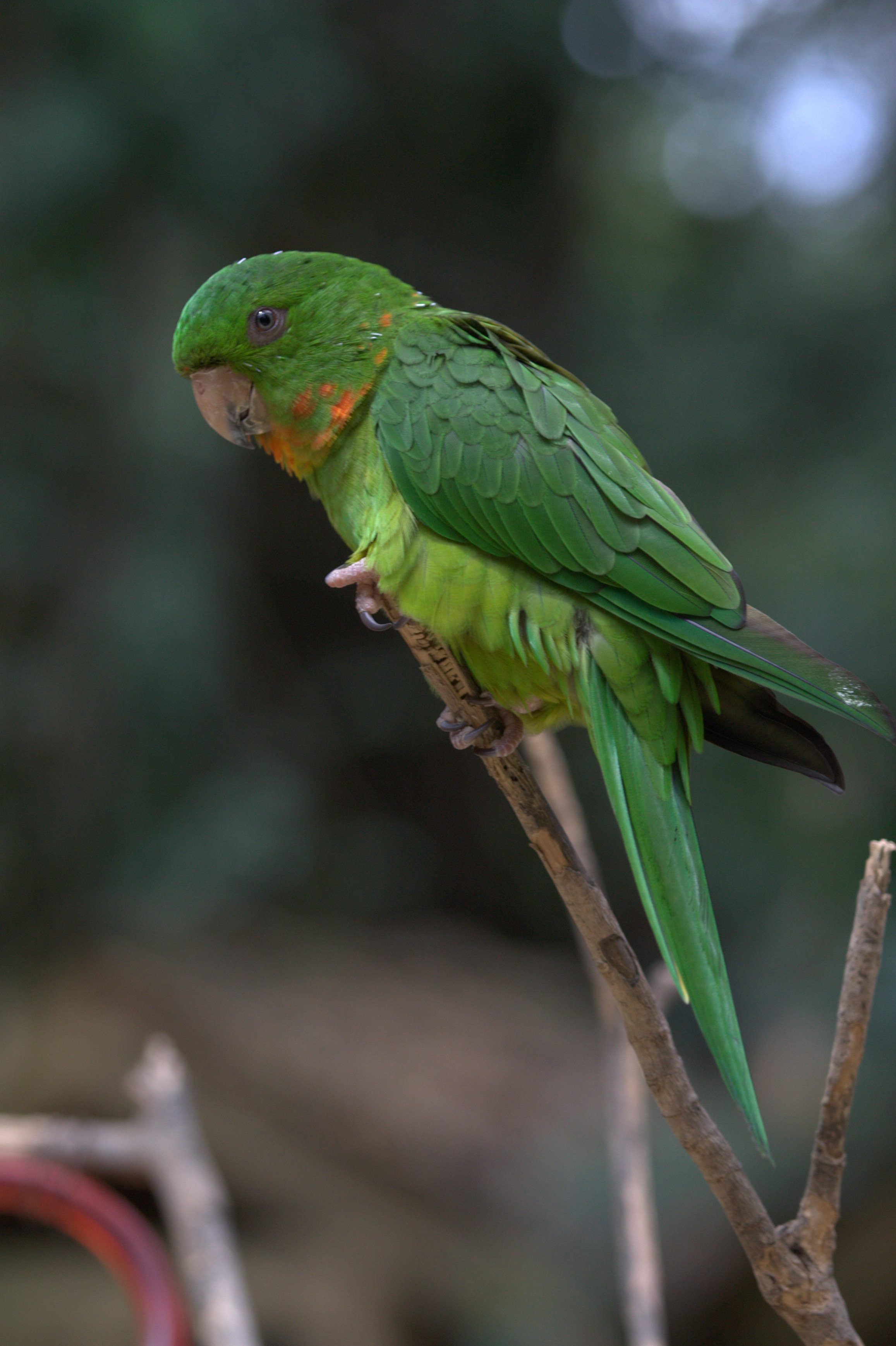 Red-throated Parakeet (Aratinga rubritorquis) also called Red-throated Conure at Macaw Mountain Bird Park and Nature Reserve, Copan, Honduras.